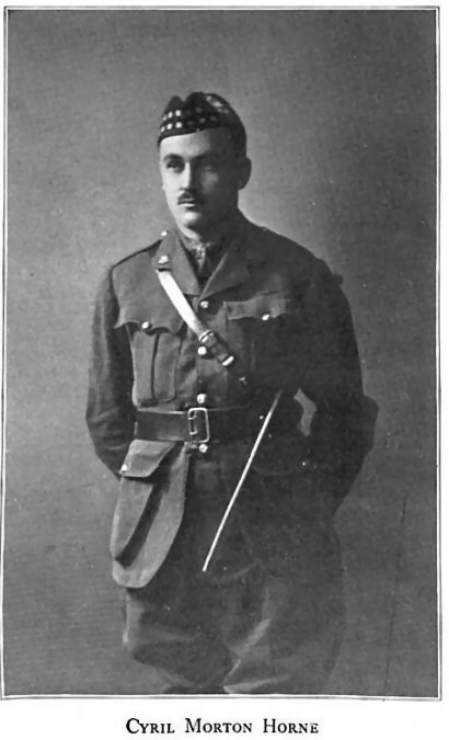 Captain Cyril Morton Horne ca. 1915-1916